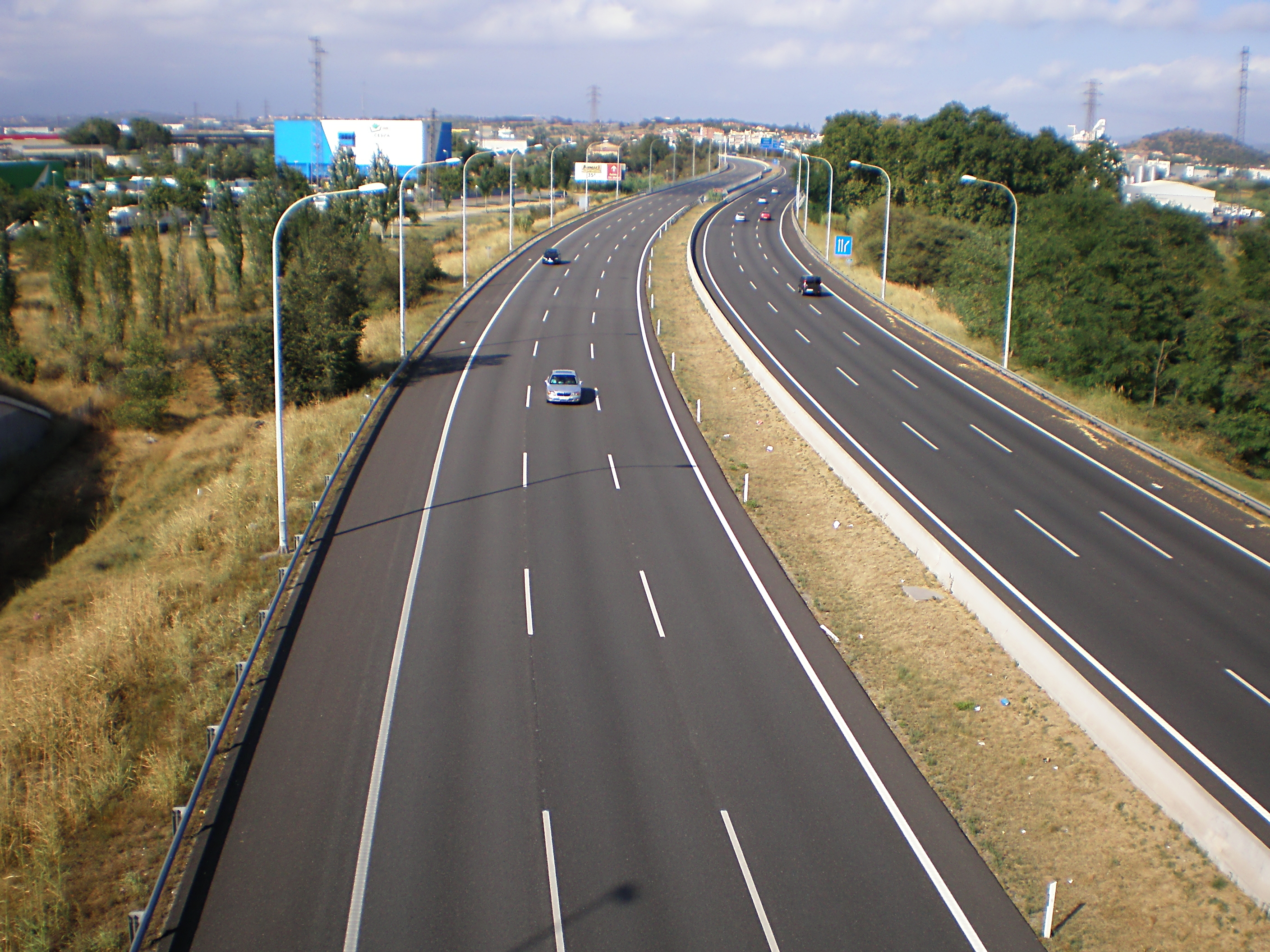 Autopista C-33 in Mollet del Vallès (Spain).